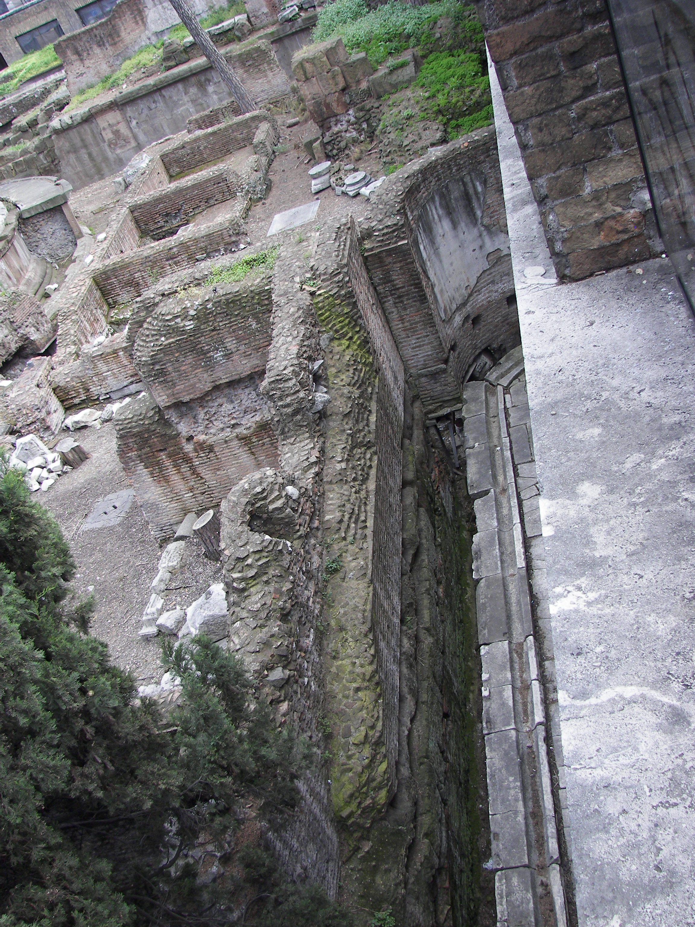 Drainage area in the northwest corner of Largo di Torre Argentina in Rome.